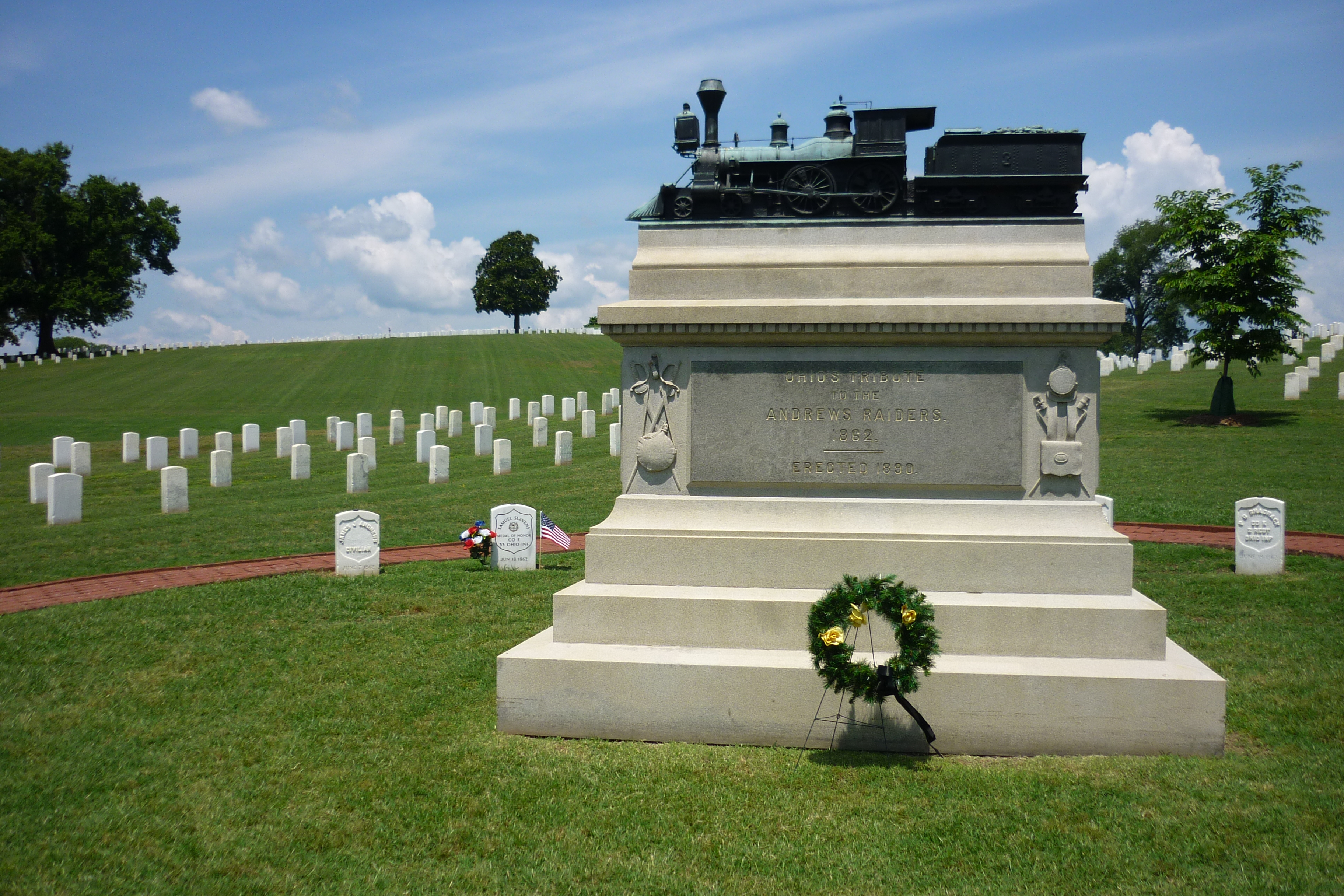 CHATTANOOGA - prominently placed are the graves of the Andrews Raiders. The memorial sculpture represents the engine that they seized. The Civil War was the first in which railways played a major role.